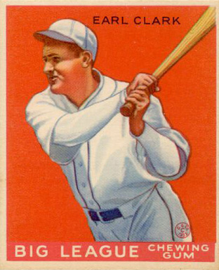 1933 Goudey baseball Card of Earl Clark of the Boston Braves #57. PD-not-renewed